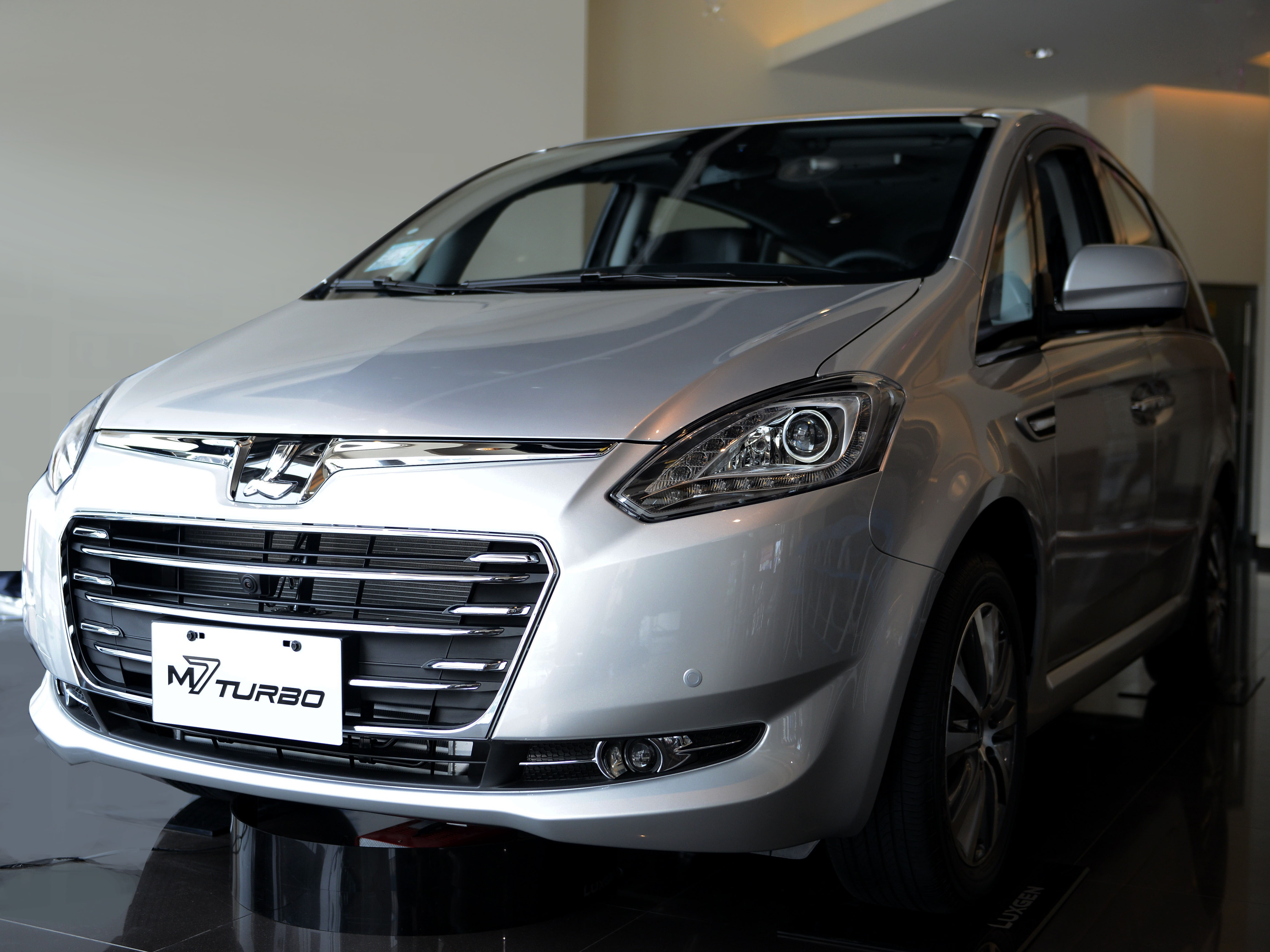 Luxgen M7 Turbo EcoHyper facelift front view